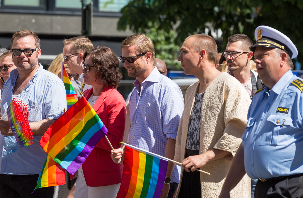 Solveig Horne and Bent Høie, Minister of Children and Equality and Minister of Health and Care Services respectivly are walking at the front of Oslo Pride 2015. The parade started in Grønland and ended in Spikersuppa.